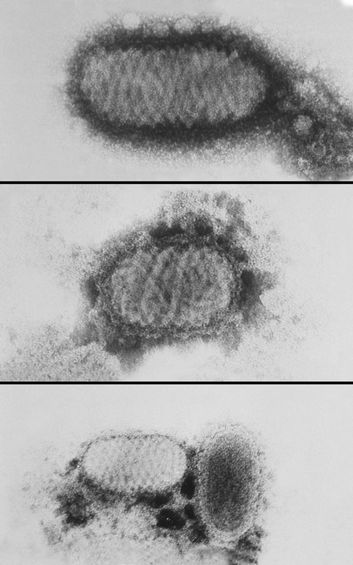 ID#: 5577 This electron micrograph depicts a number of morphologic variants found in the parapox Orf virus common to sheep and goats. The criss cross pattern is an artefact caused by superimposition of images of the top and bottom surfaces of the virus The Orf virus is a “species-type”, belonging to the genus of viruses known as Parapoxviridae. It can live in soil for a prolonged time, and can cause skin infections in its animal hosts. It is zoonotic, producing skin lesions in infected humans as well.